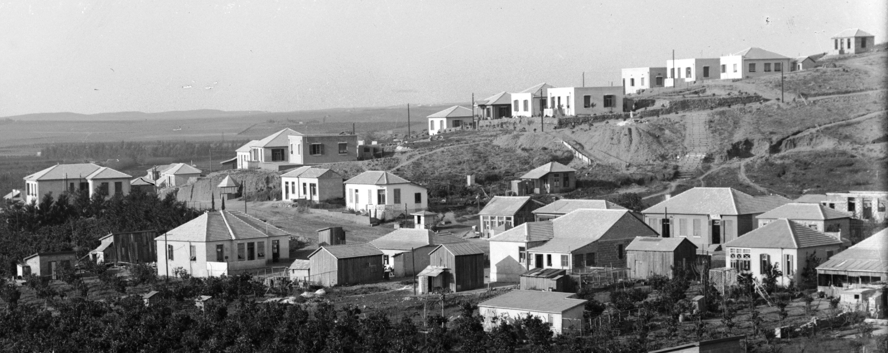 Zionist colonies on Sharon. Bnai Brak. Colony of Orthodox Jews.